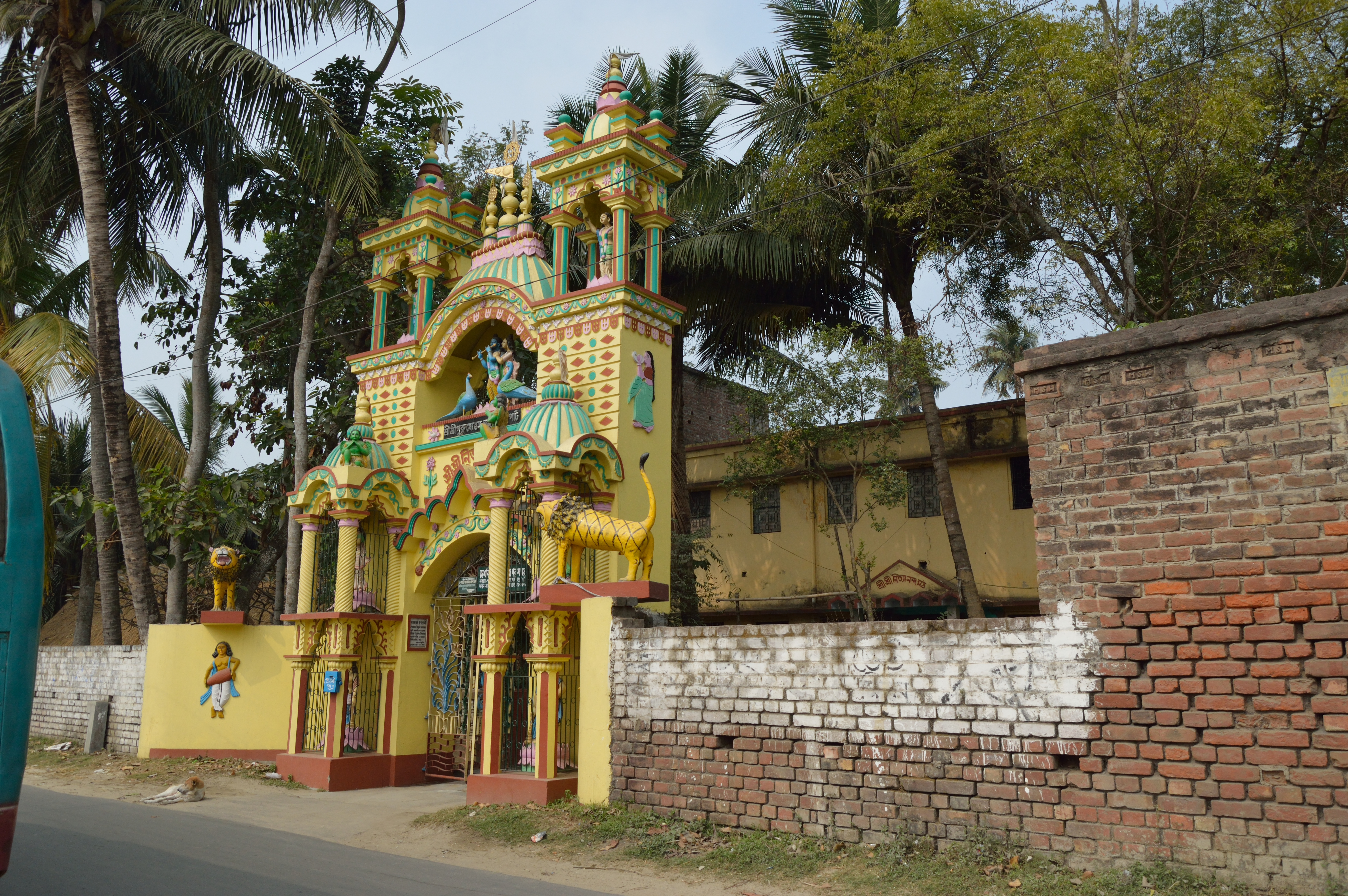 Photographed at Shimurali, Nadia.